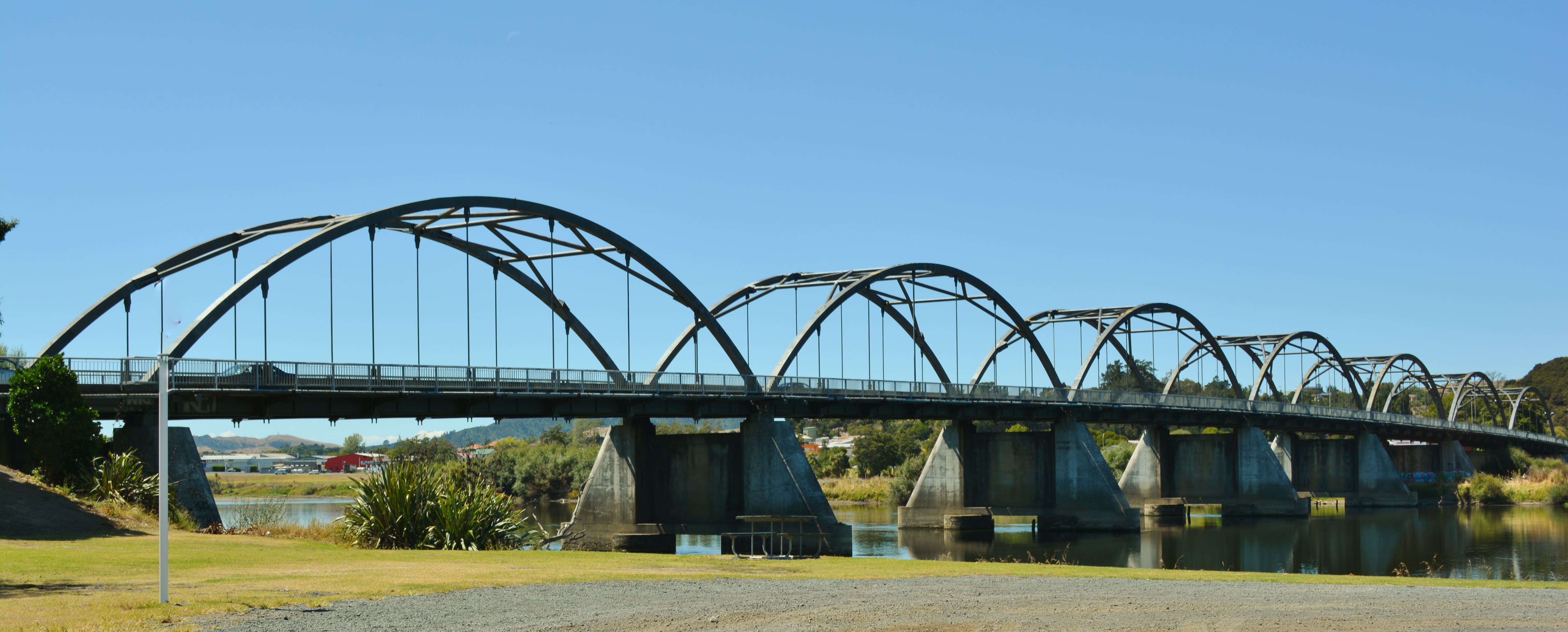 Bridge across the Waikato River at Huntly,New Zealand